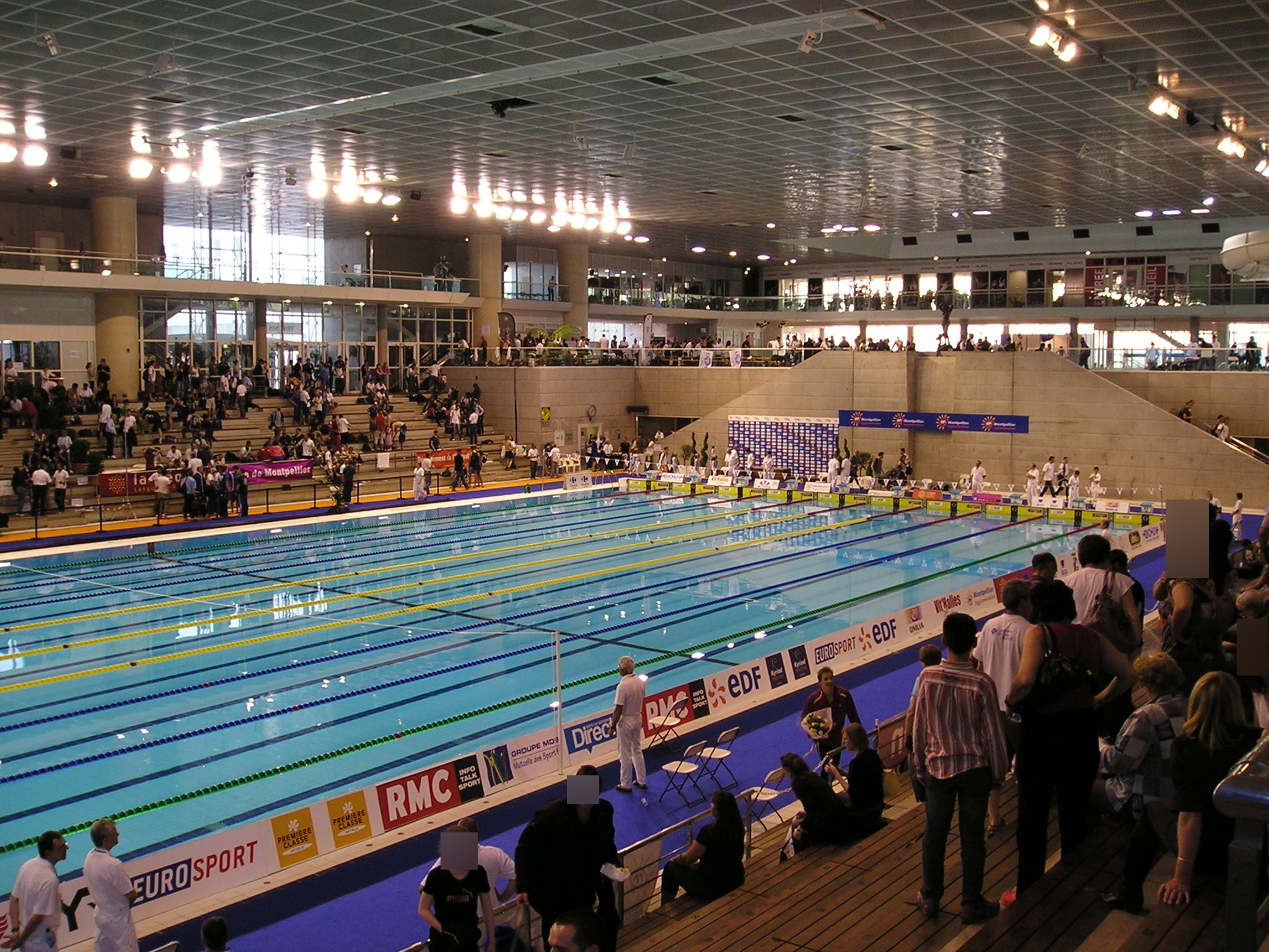 French Swimming Championships, Montpellier, 23 April 2009 afternoon: the Antigone swimming pool after the end of the competition.